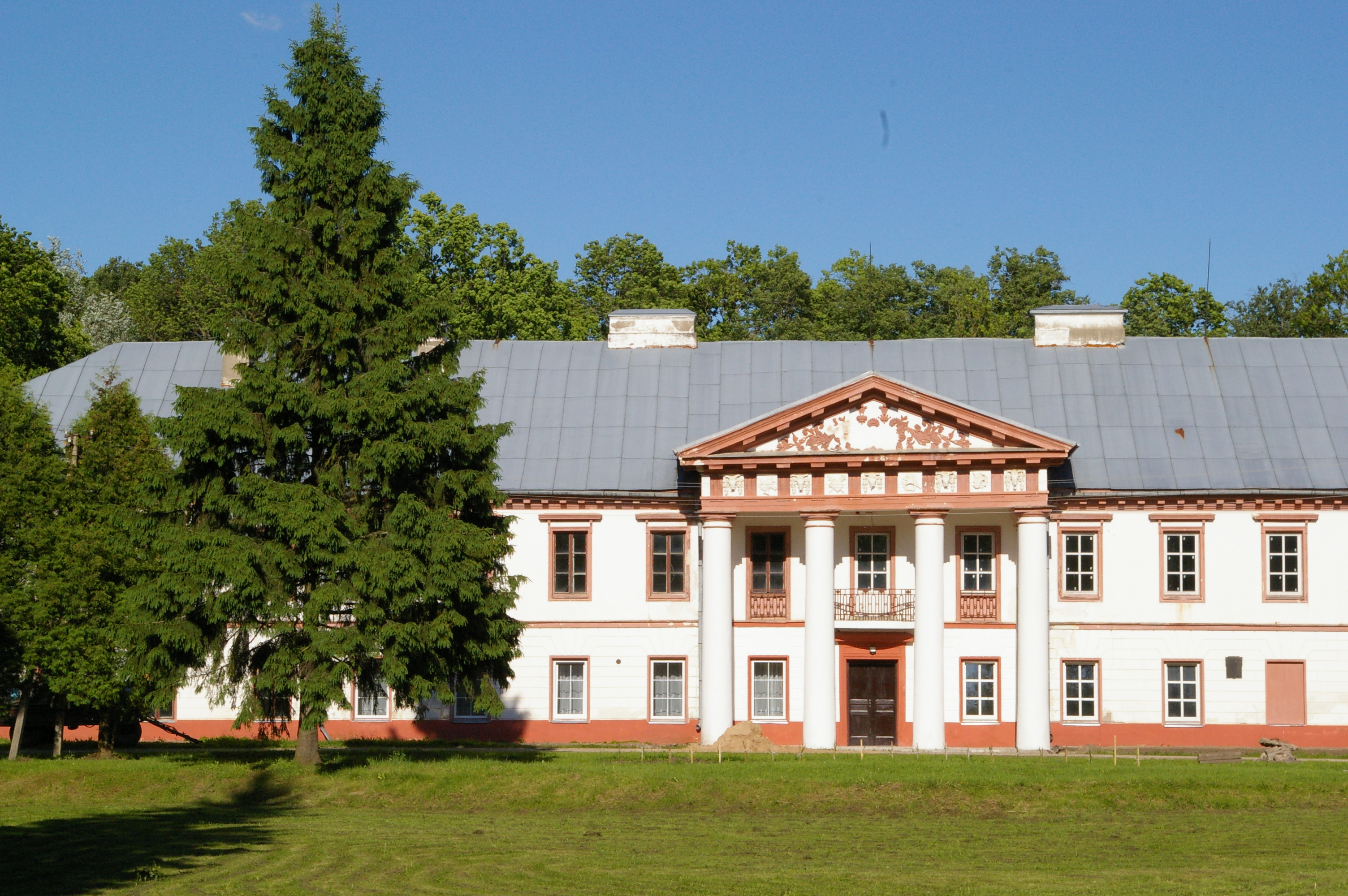 Raguvėlė manor house, Anykščiai district, Lithuania.